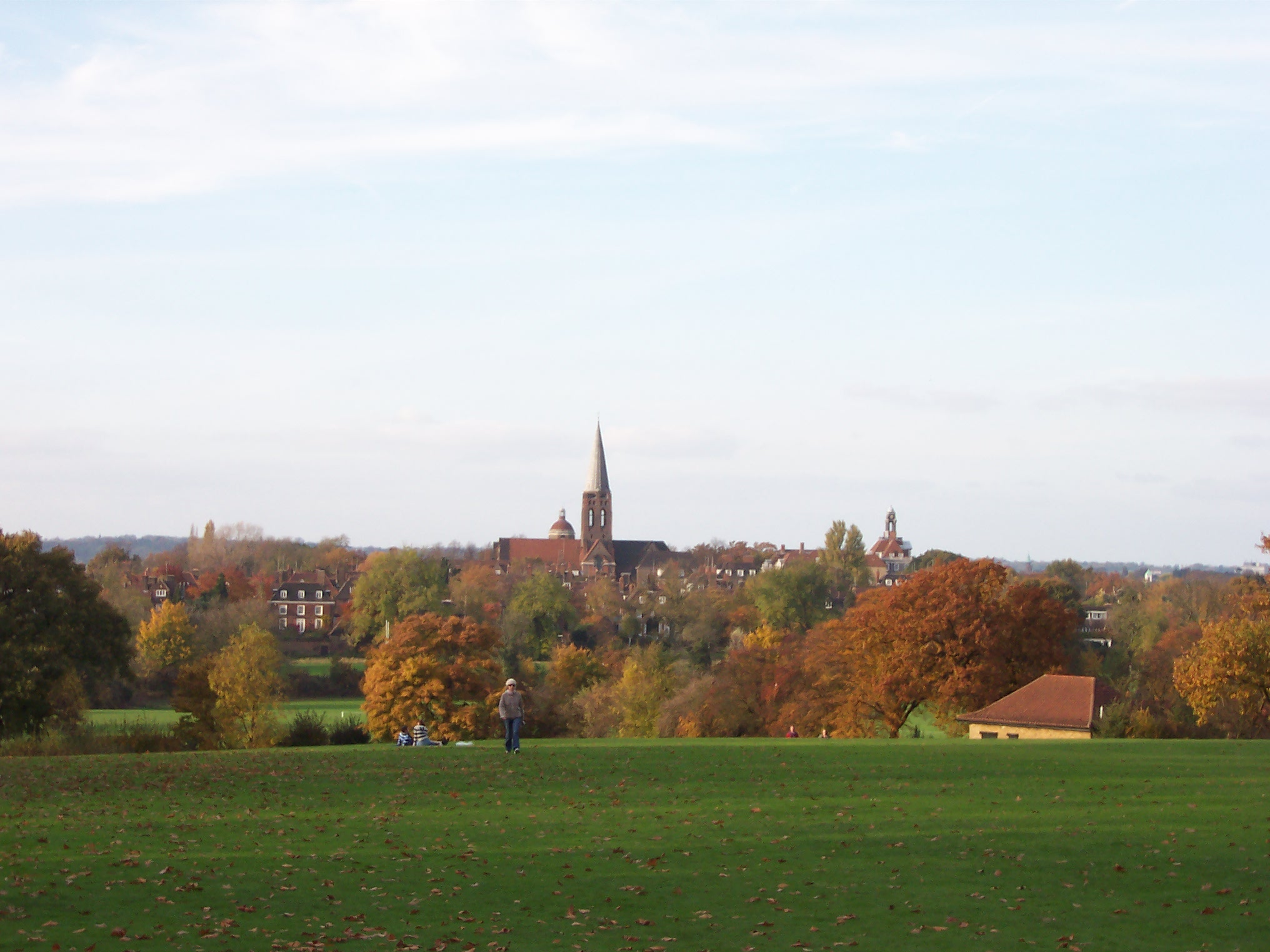 View of Hampstead Heath extension looking north-west to St Jude's church Hampstead Garden Suburb